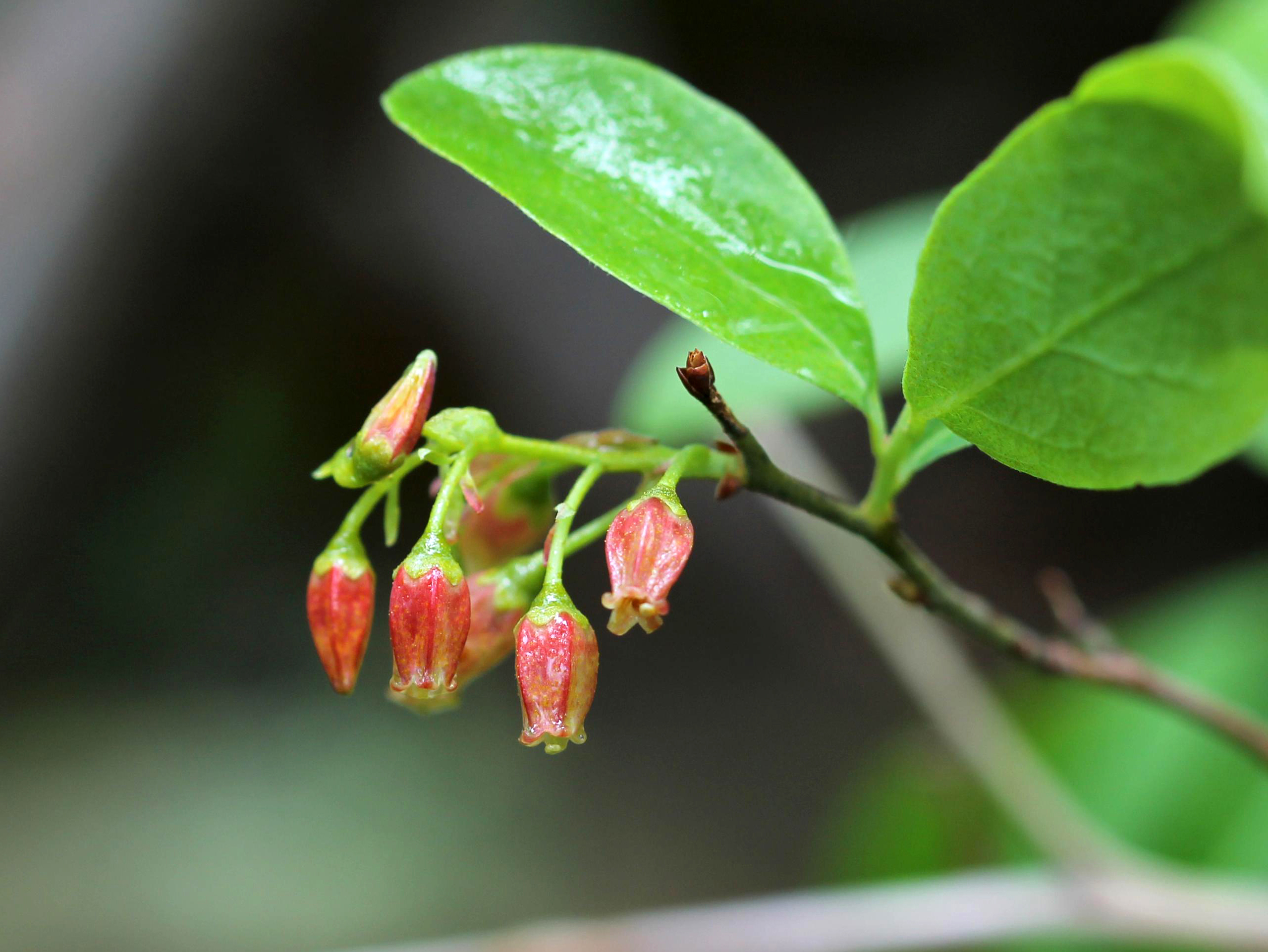 black huckleberry. Gaylussacia baccata (Wangenh.) K. Koch. Flower(s) Gaylussacia baccata. Mary Ann Lake, Sault Ste. Marie Airport, Sault Ste. Marie, Ontario, Canada